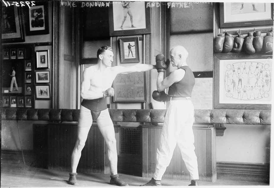 Mike Donovan & father